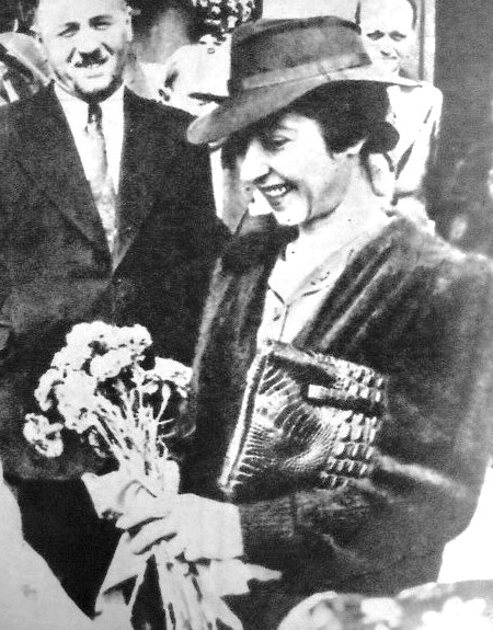 Photograph of Maria Antonescu, wife of Romanian fascist leader Ion Antonescu, during an official function.